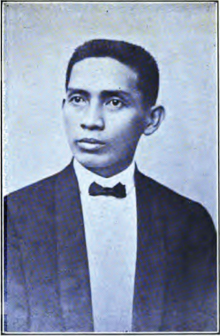 Hon Florentino Penaranda